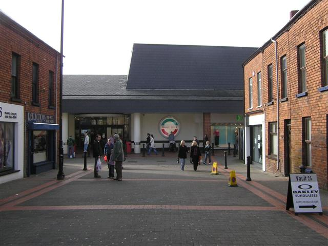 The Tower Centre, Ballymena One of two large indoor shopping centres in the town.